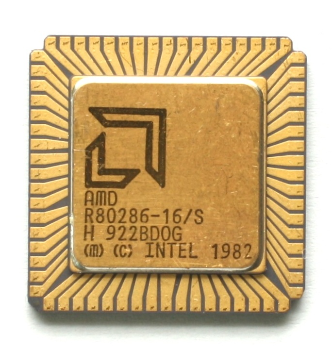 CPU AMD 80286, CLCC, bottom view